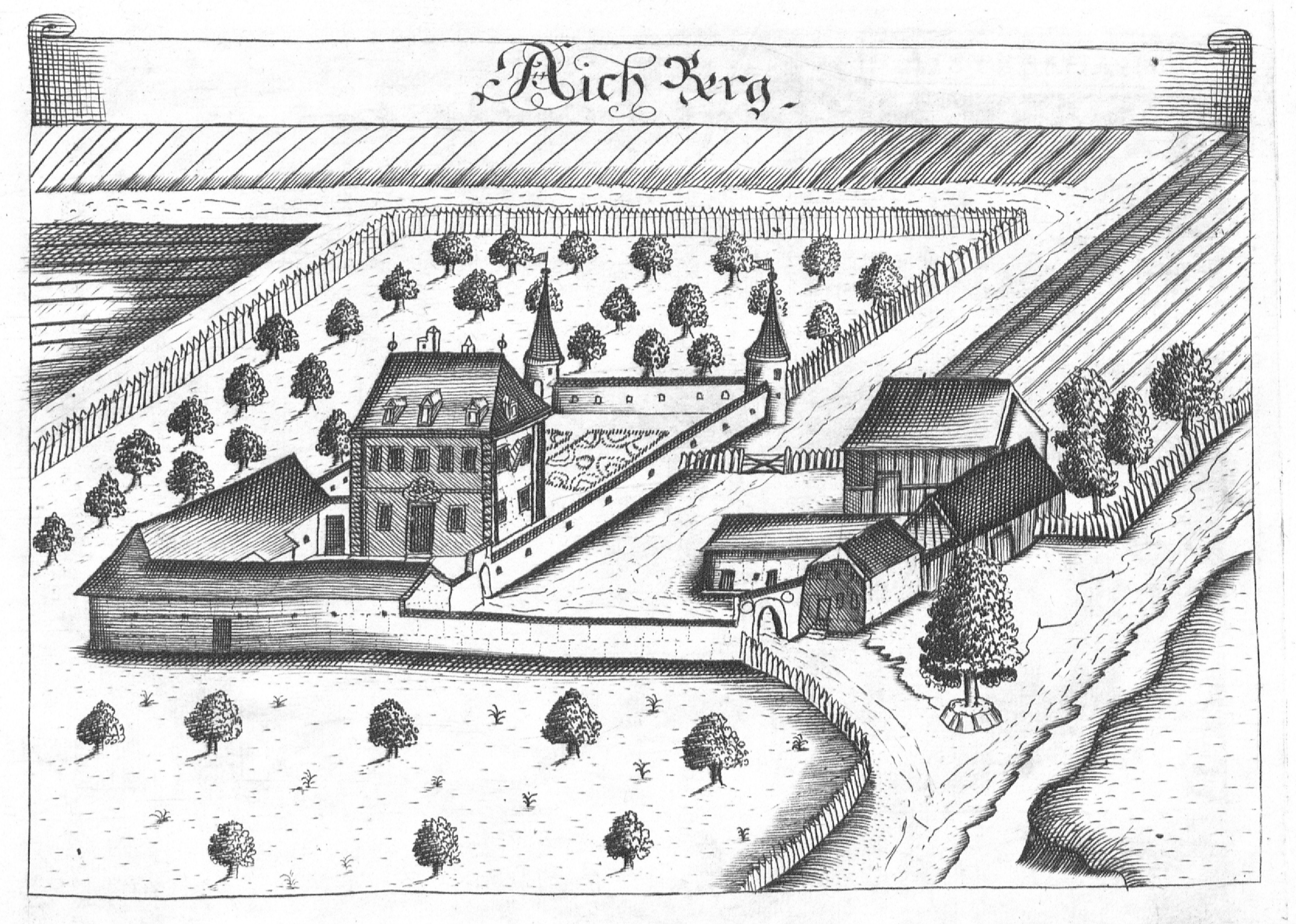 Engraving, view of Aichberg castle, Upper Austria